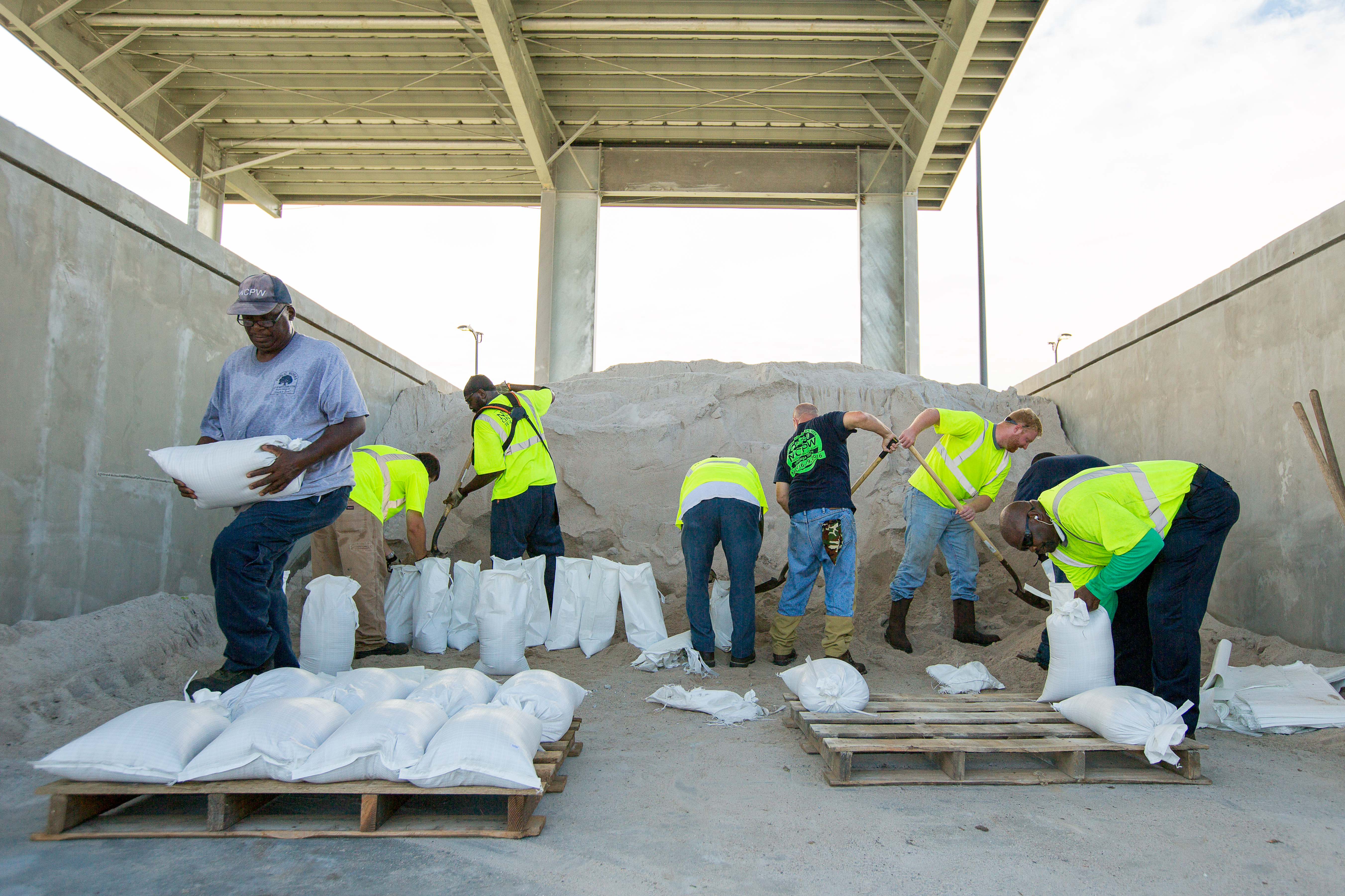 North Charleston Public Works employees providing sandbags for North Charleston residents ahead of Hurricane Hermine. Photo by Ryan Johnson